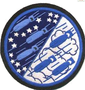 Emblem of the 475th Bombardment Squadron (World War II)